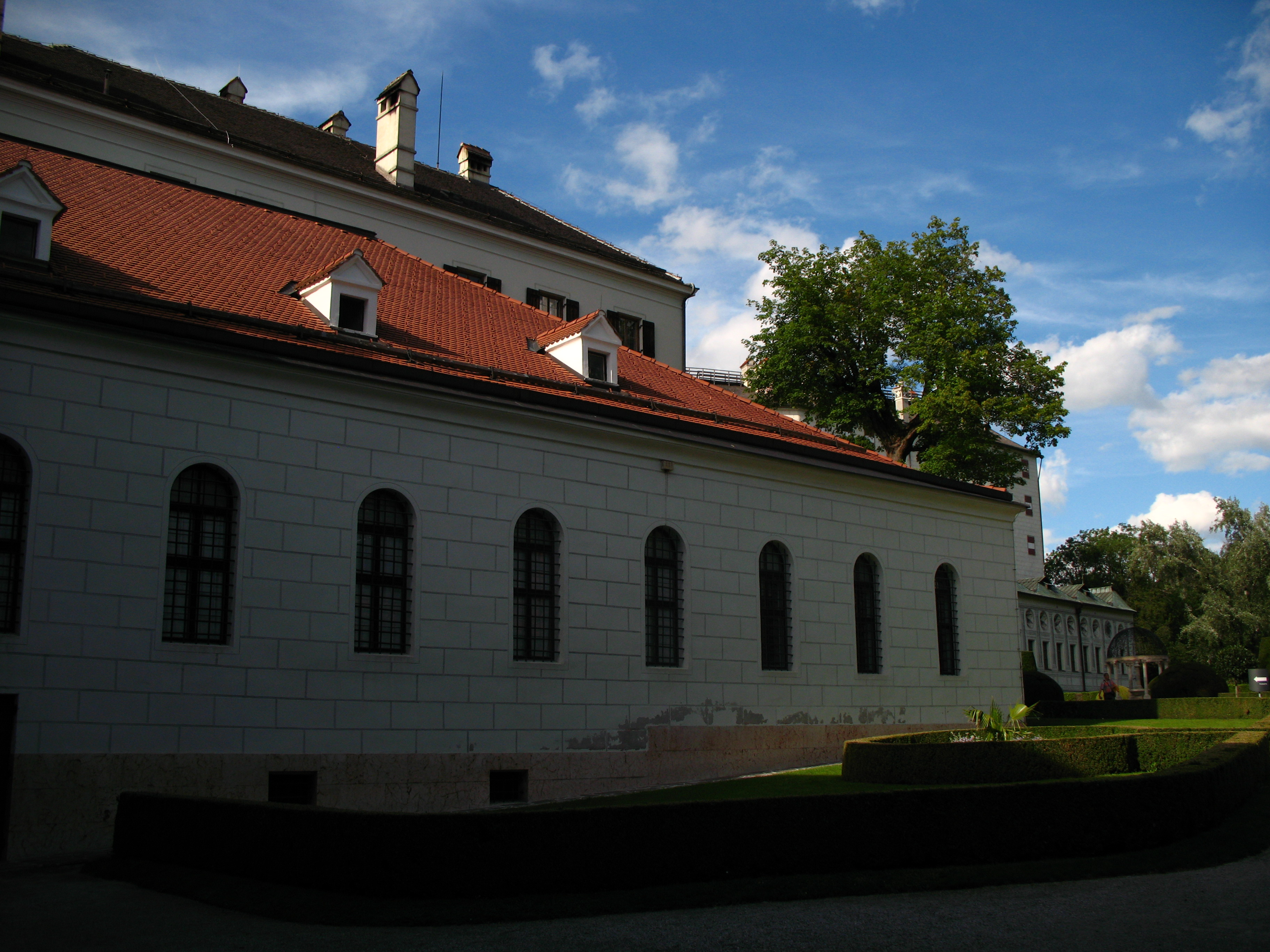 Ambras Castle, Innsbruck, Austria